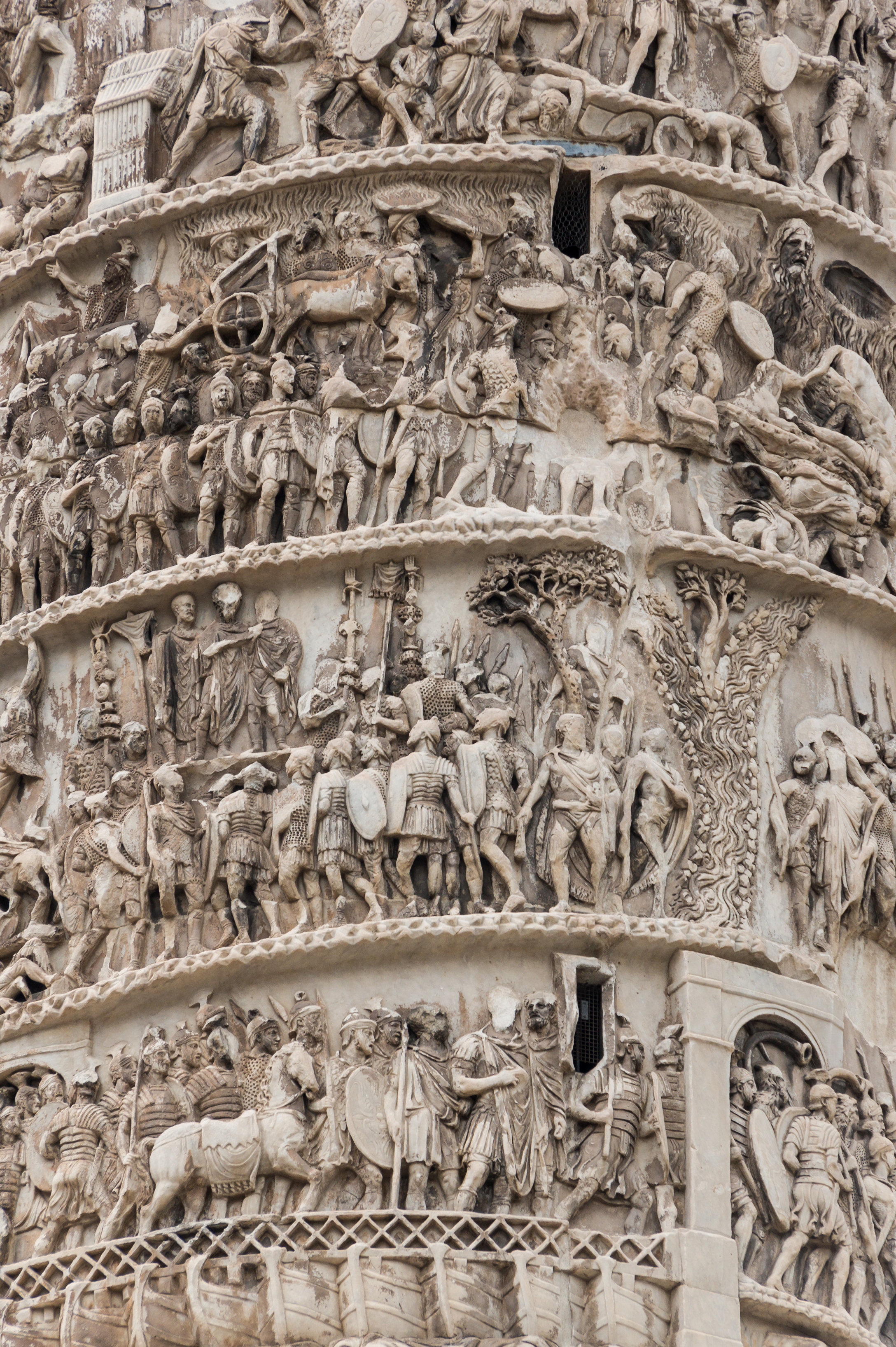 Detail of the Marcus-Aurelius column, Rome, Italy.